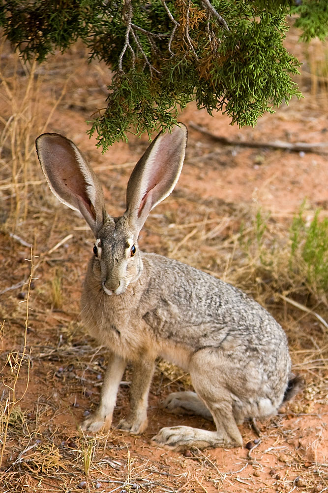 Black Tailed Jackrabbit, Kodachrome Basin State Park, Utah